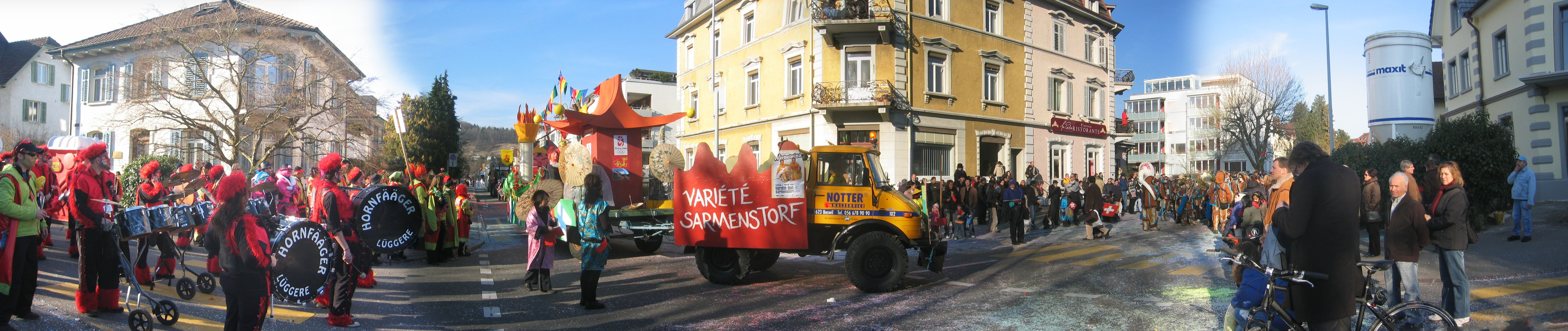 A panorama